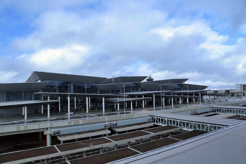 Terminal 3 do Aeroporto Internacional de São Paulo-Guarulhos